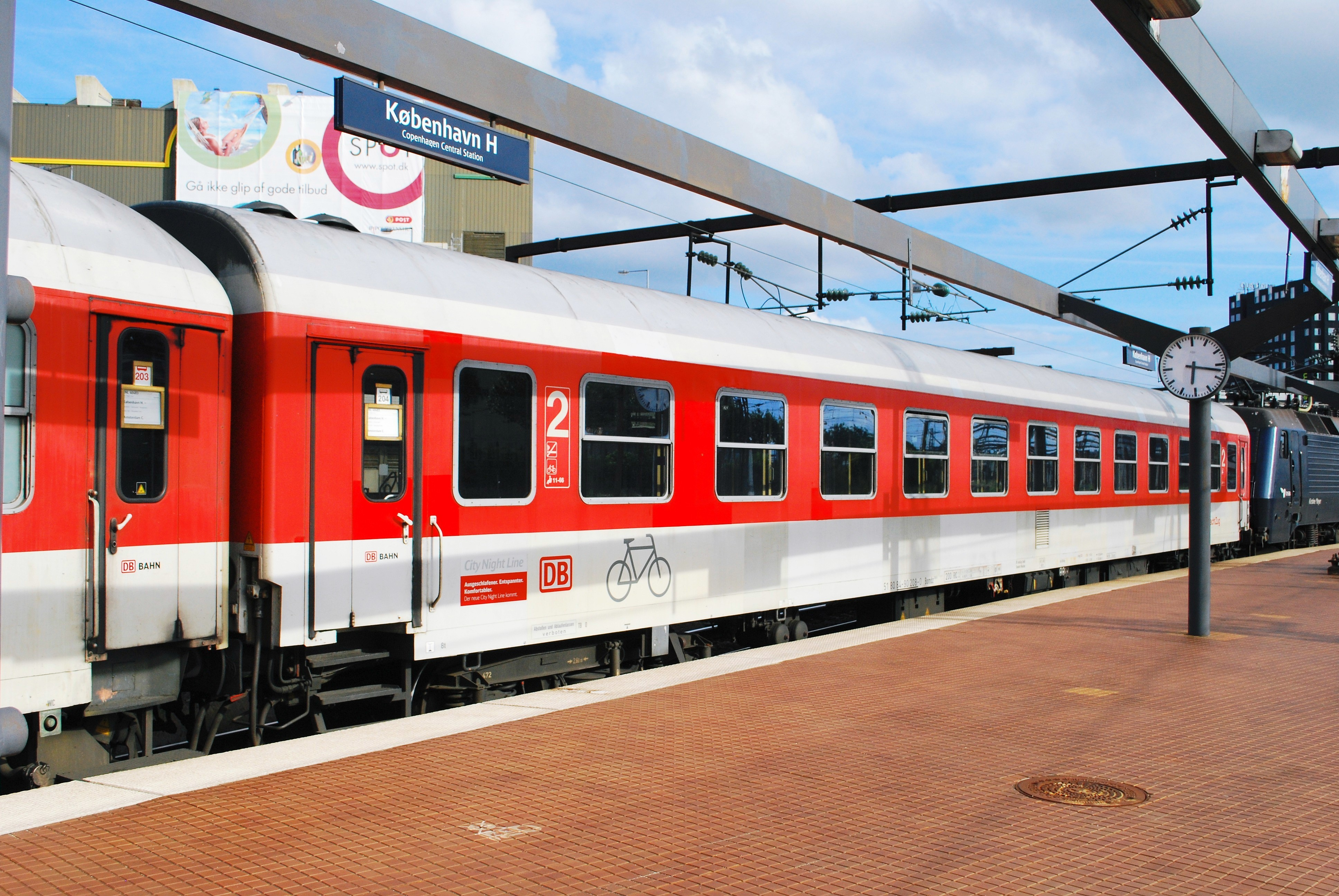 DB 2nd Class Saloon at Kobenhavn on the "Borealis" City Night Line Sleeper, 6/10.